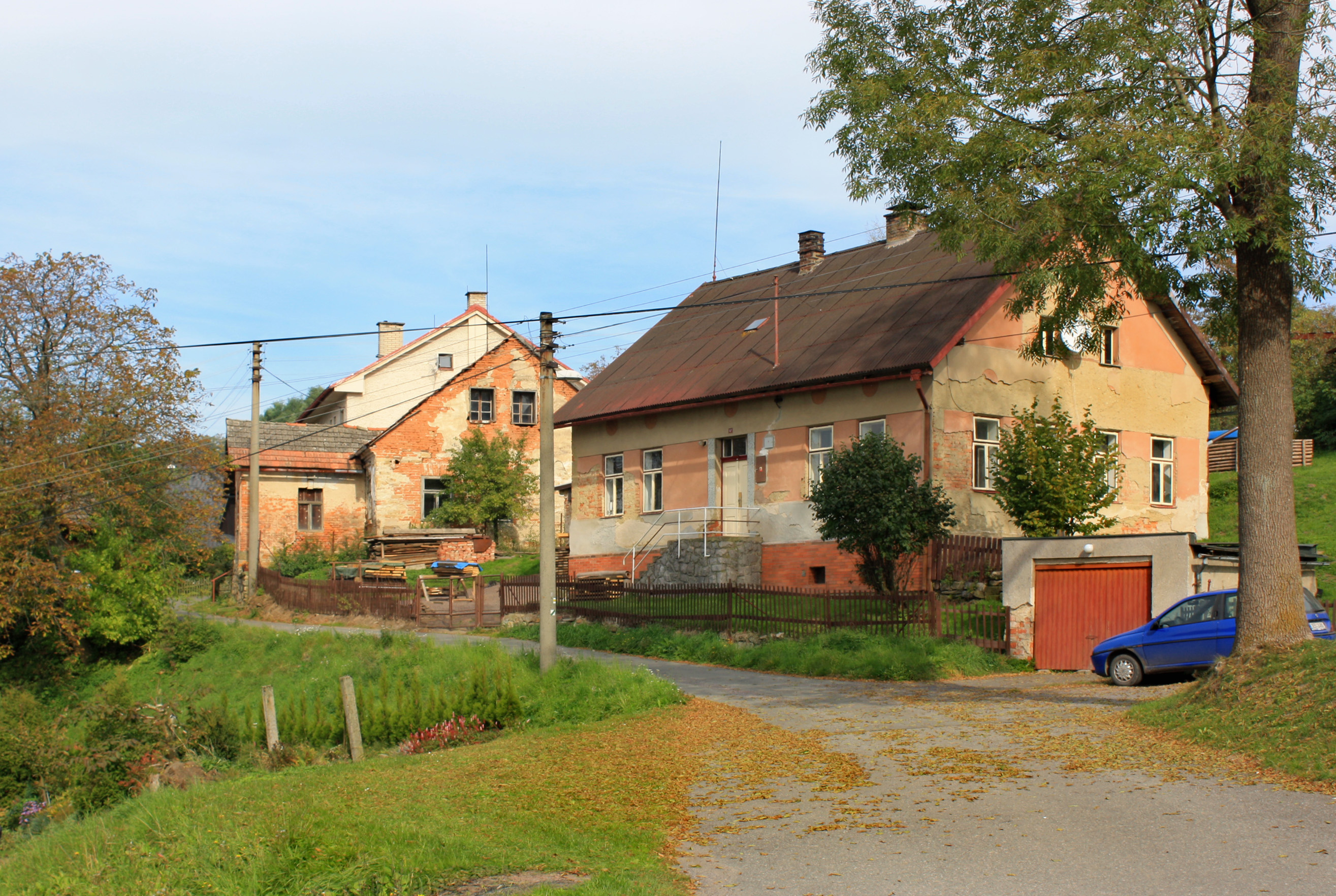 Side street in Proruby, Czech Republic